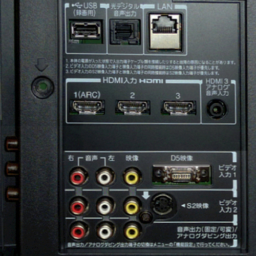 Regza Z Series Back Panel Interface